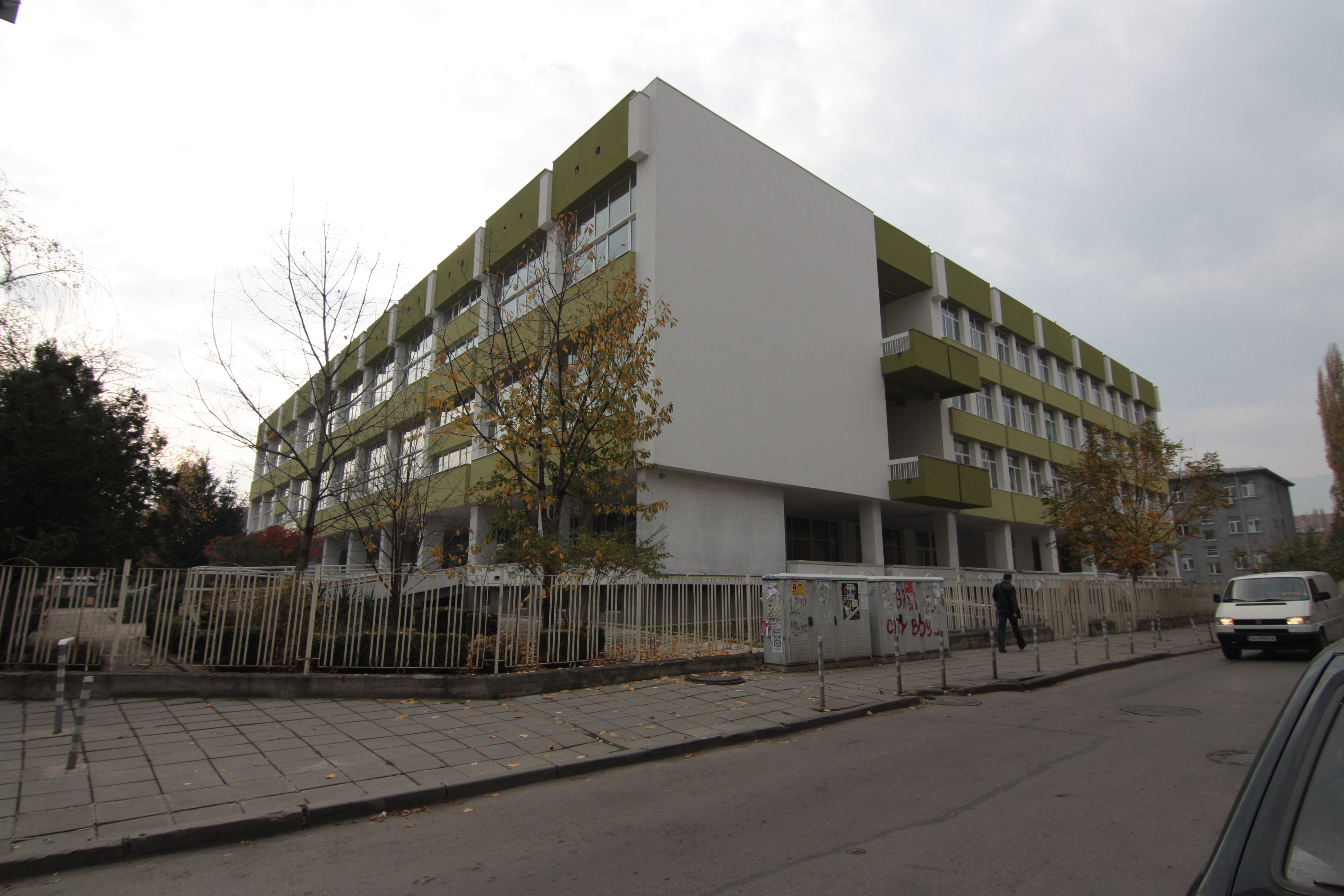 National School of Dance Art, Sofia, Bulgaria